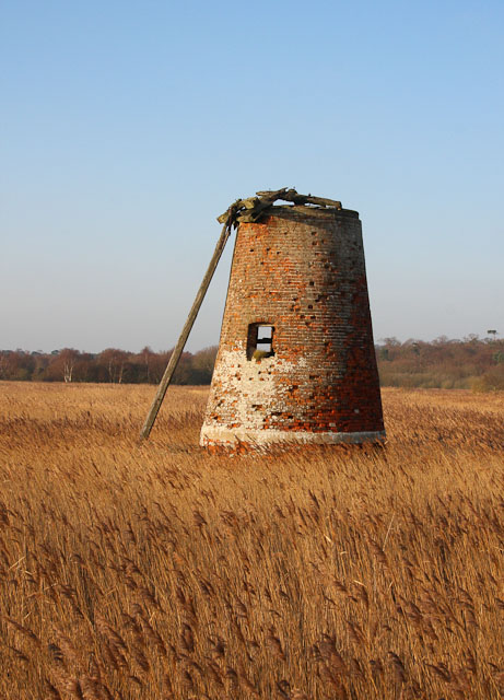 The windpump at Westwood Marshes, Walberswick, Suffolk